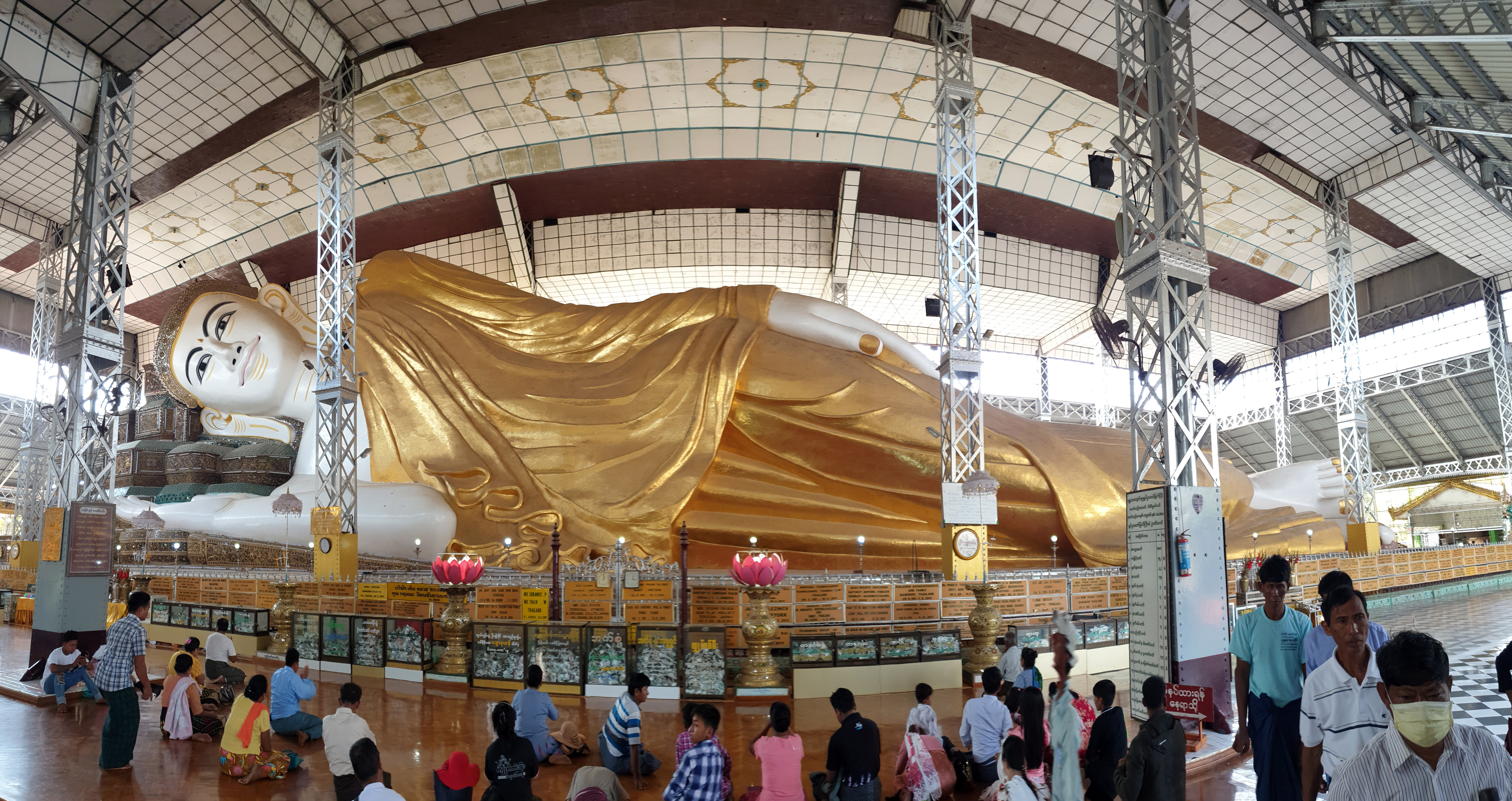 Shwethalyaung Buddha Temple, Bago, Myanmar: This Buddha figure is the second largest reclining Buddha in the world. The figure is 55 m long and 16 m high.